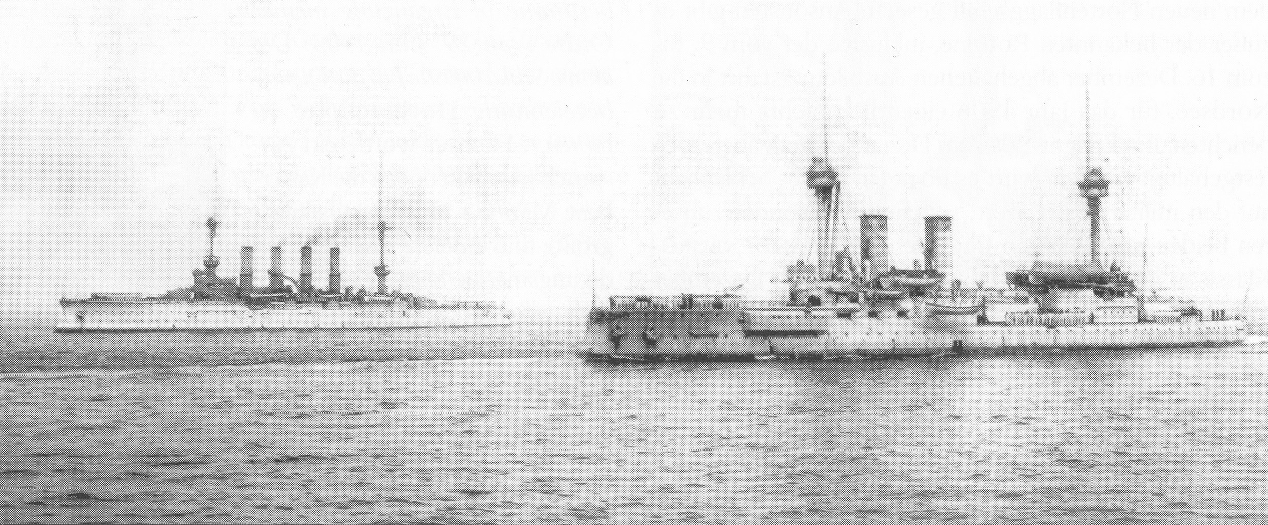 The German battleship SMS Brandenburg and the German cruiser SMS Roon in 1906.